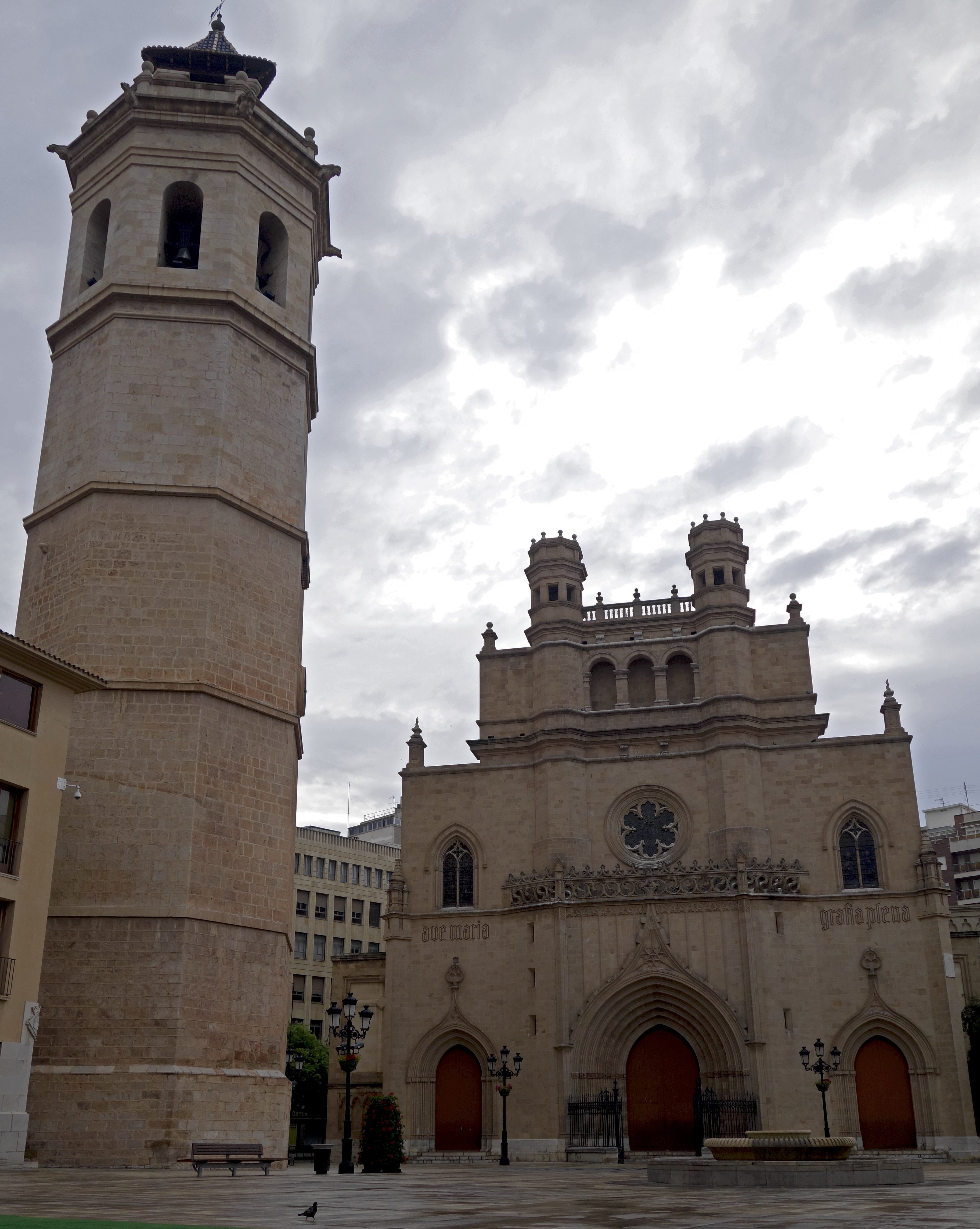 Con-cathedral of Saint Mary (Castellón de la Plana, Spain)